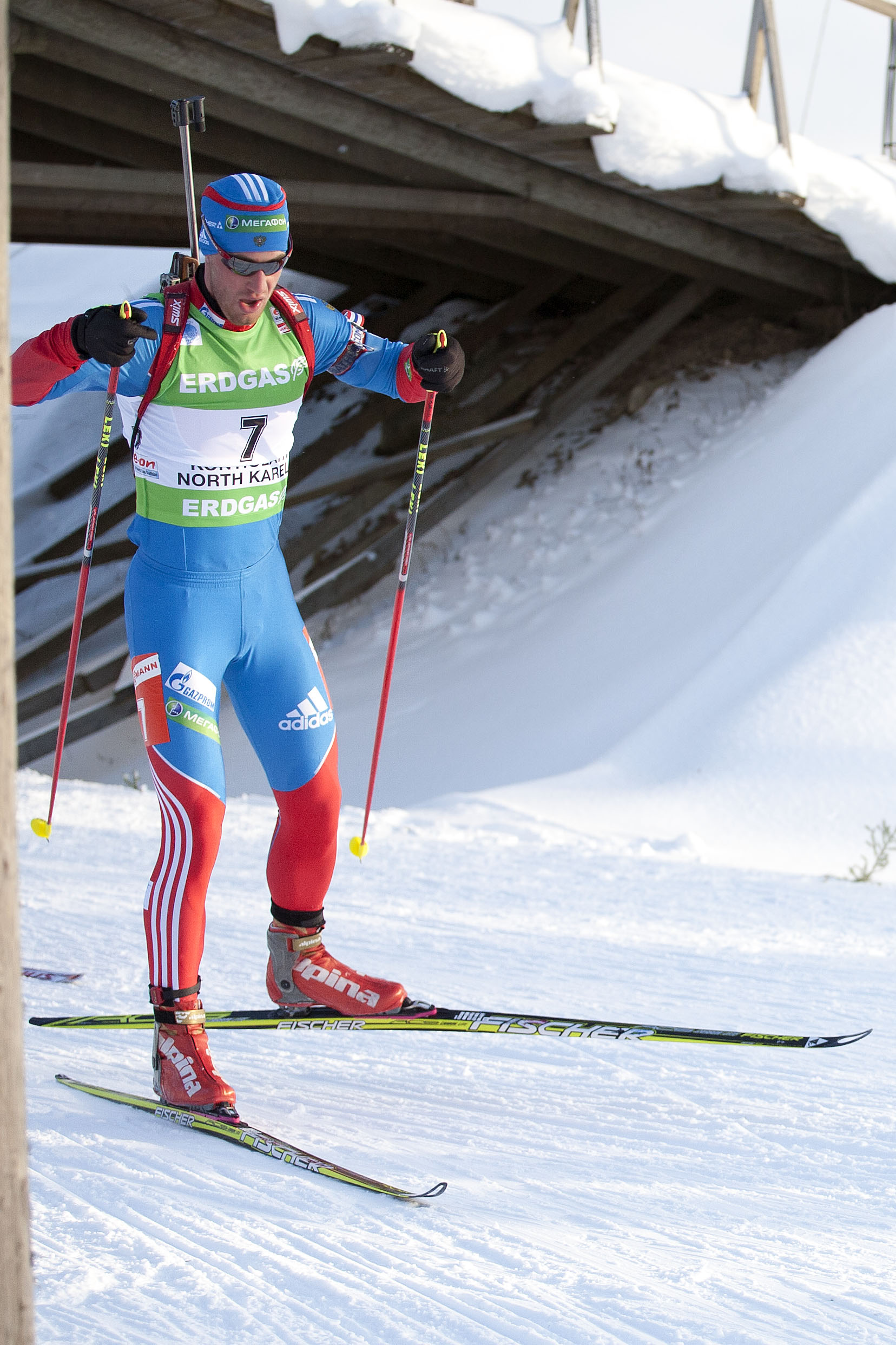 Dmitry Malyshko, E.ON IBU WORLD CUP 8 BIATHLON - Kontiolahti (FIN)